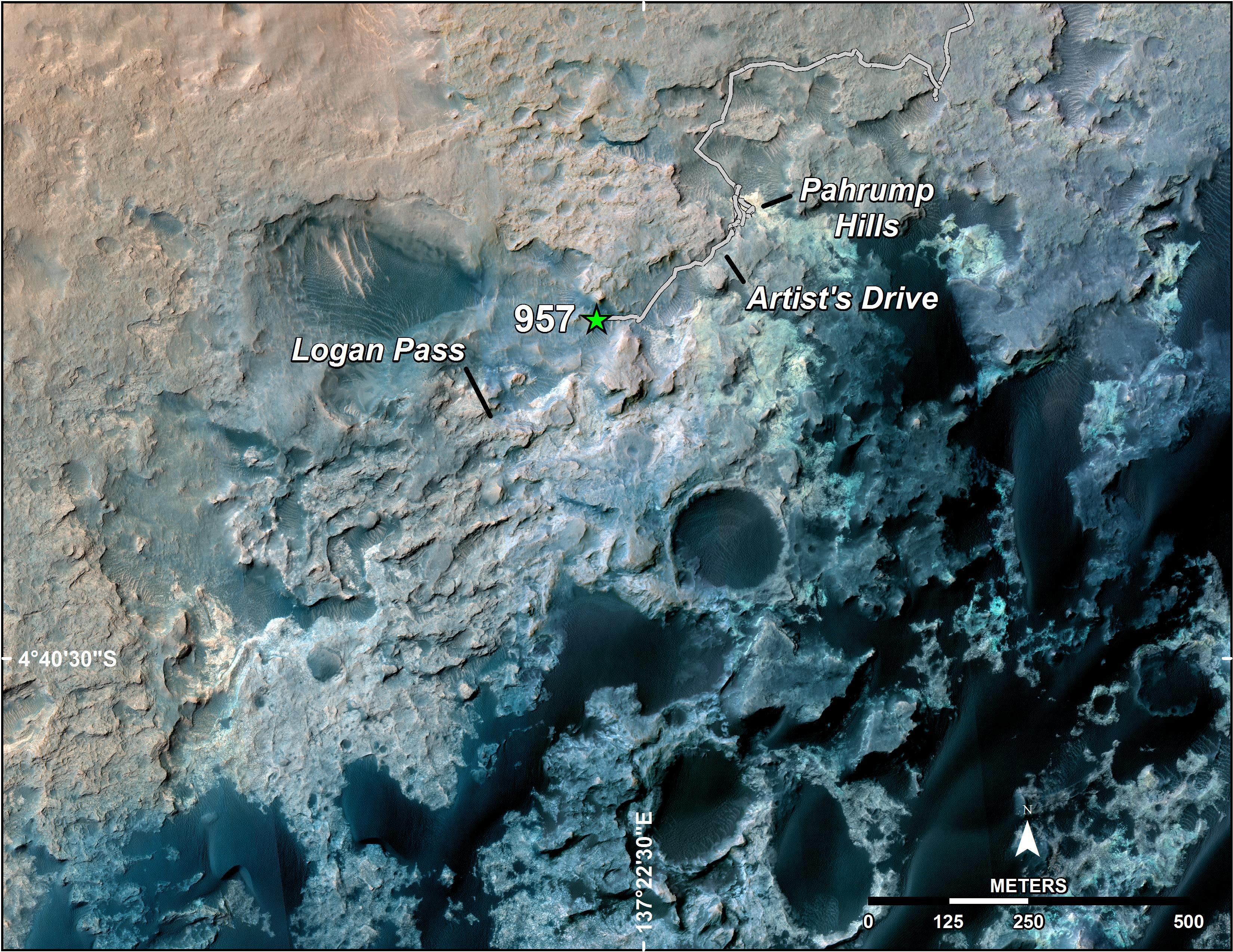 PIA19390: Curiosity's Position After 10 Kilometers A green star marks the location of NASA's Curiosity Mars rover after a drive on the mission's 957th Martian day, or sol, (April 16, 2015). The map covers an area about 1.25 miles (2 kilometers) wide. Curiosity landed on Mars in August 2012. The drive on Sol 957 brought the mission's total driving distance past the 10-kilometer mark (6.214 miles). The rover is passing through a series of shallow valleys on a path from the "Pahrump Hills" outcrop, which it investigated for six months, toward its next science destination, called "Logan Pass." The rover's traverse line enters this map at the location Curiosity reached in mid-July 2014. The base map uses imagery from the High Resolution Imaging Science Experiment (HiRISE) camera on NASA's Mars Reconnaissance Orbiter. More information about Curiosity is online at and